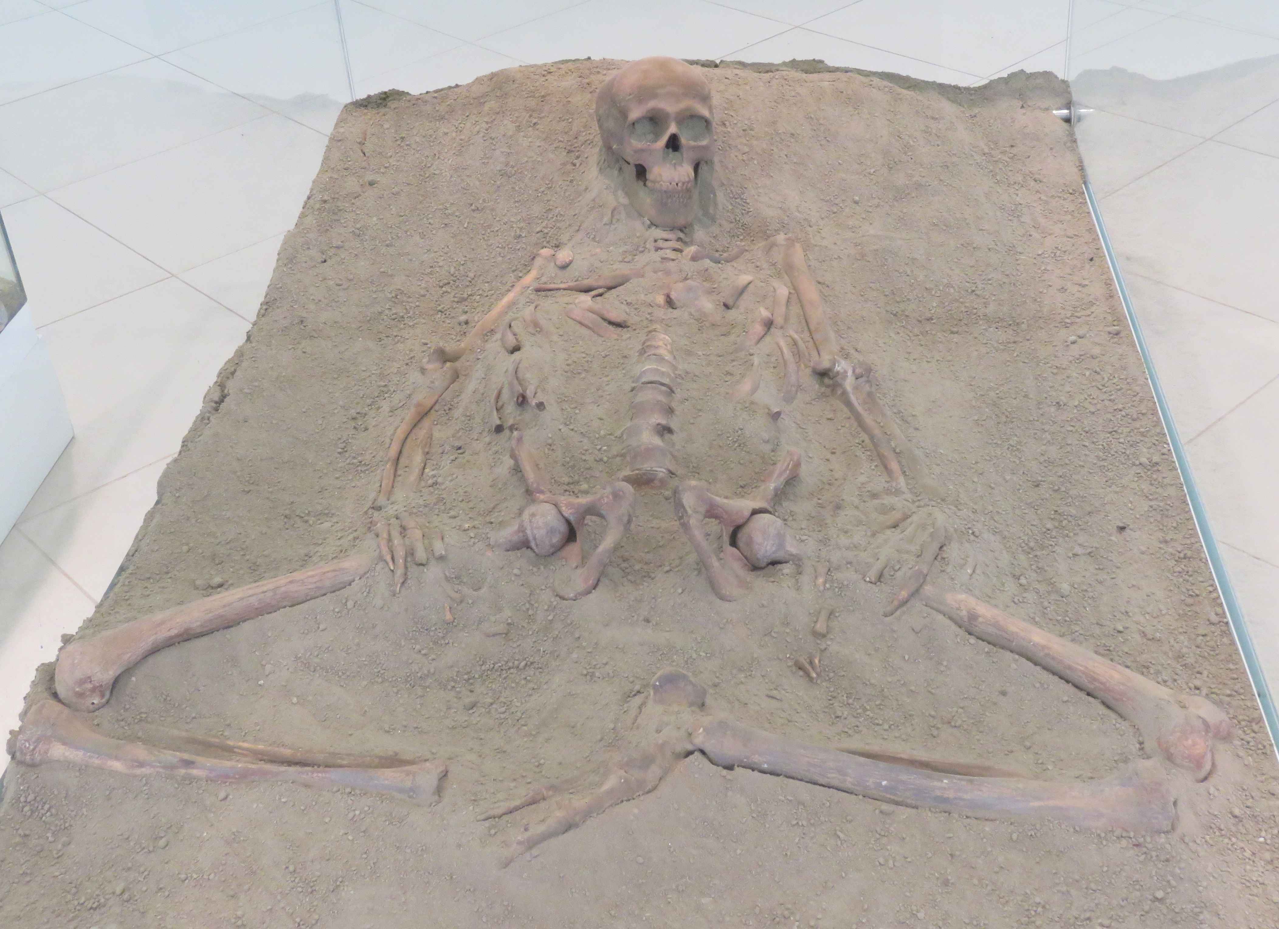 Museum Lepenski Vir, skeleton